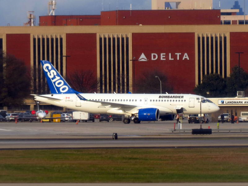 Bombardier Bombardier CS100 Hartsfield-Jackson Atlanta International Airport